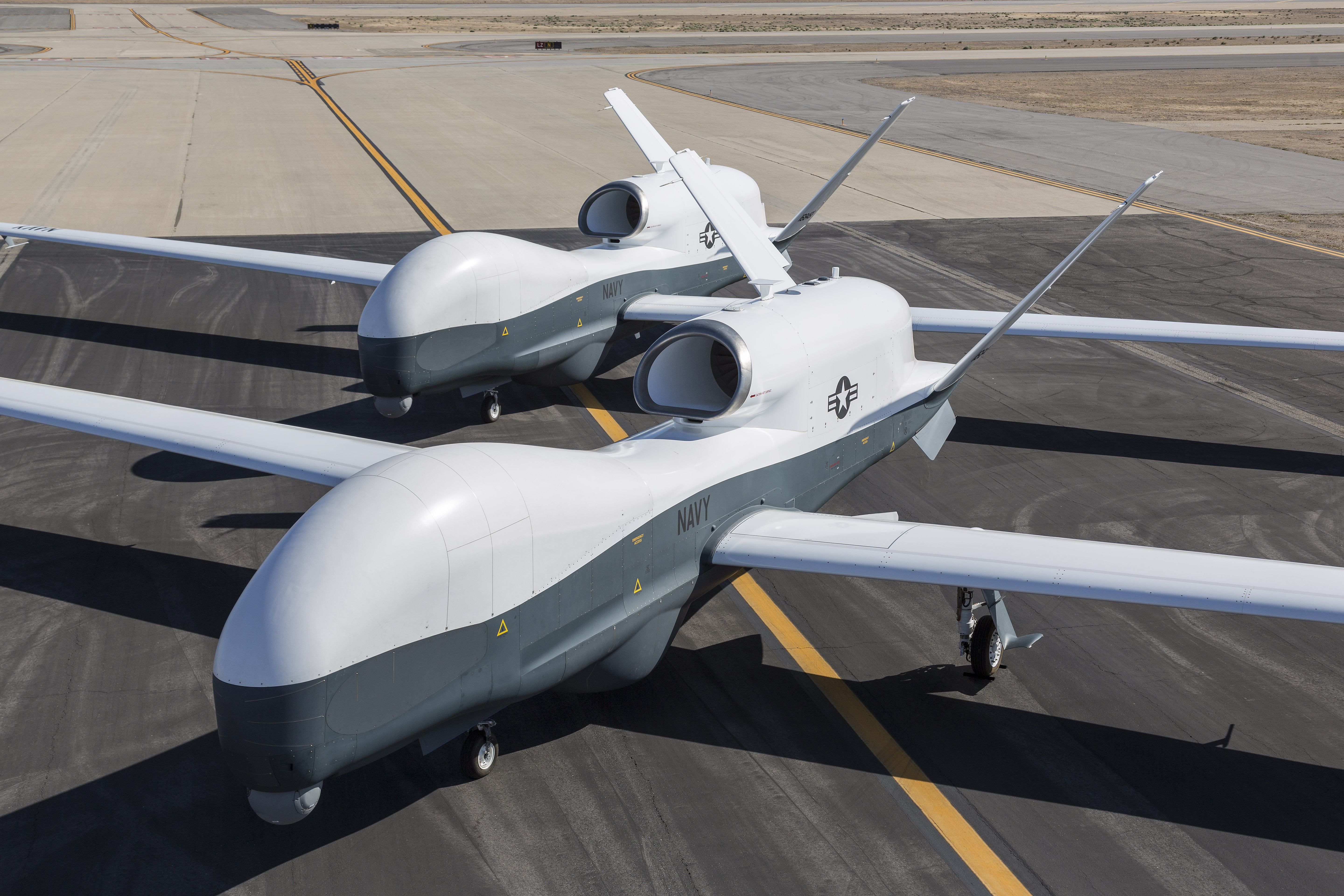 Two Northrop Grumman MQ-4C Triton unmanned aerial vehicles are seen on the tarmac at a Northrop Grumman test facility in Palmdale, Calif. Triton is undergoing flight testing as an unmanned maritime surveillance vehicle. (U.S. Navy photo courtesy of Northrop Grumman by Chad Slattery/Released) 130521-O-ZZ999-110